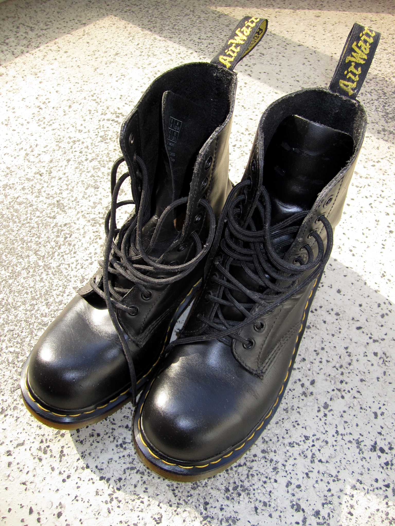 Dr. Martens 10-eyelet boots. Made in China.